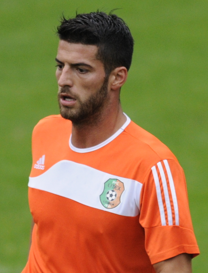 Jürgen Gjasula, аlbanian footballer, Litex Lovech